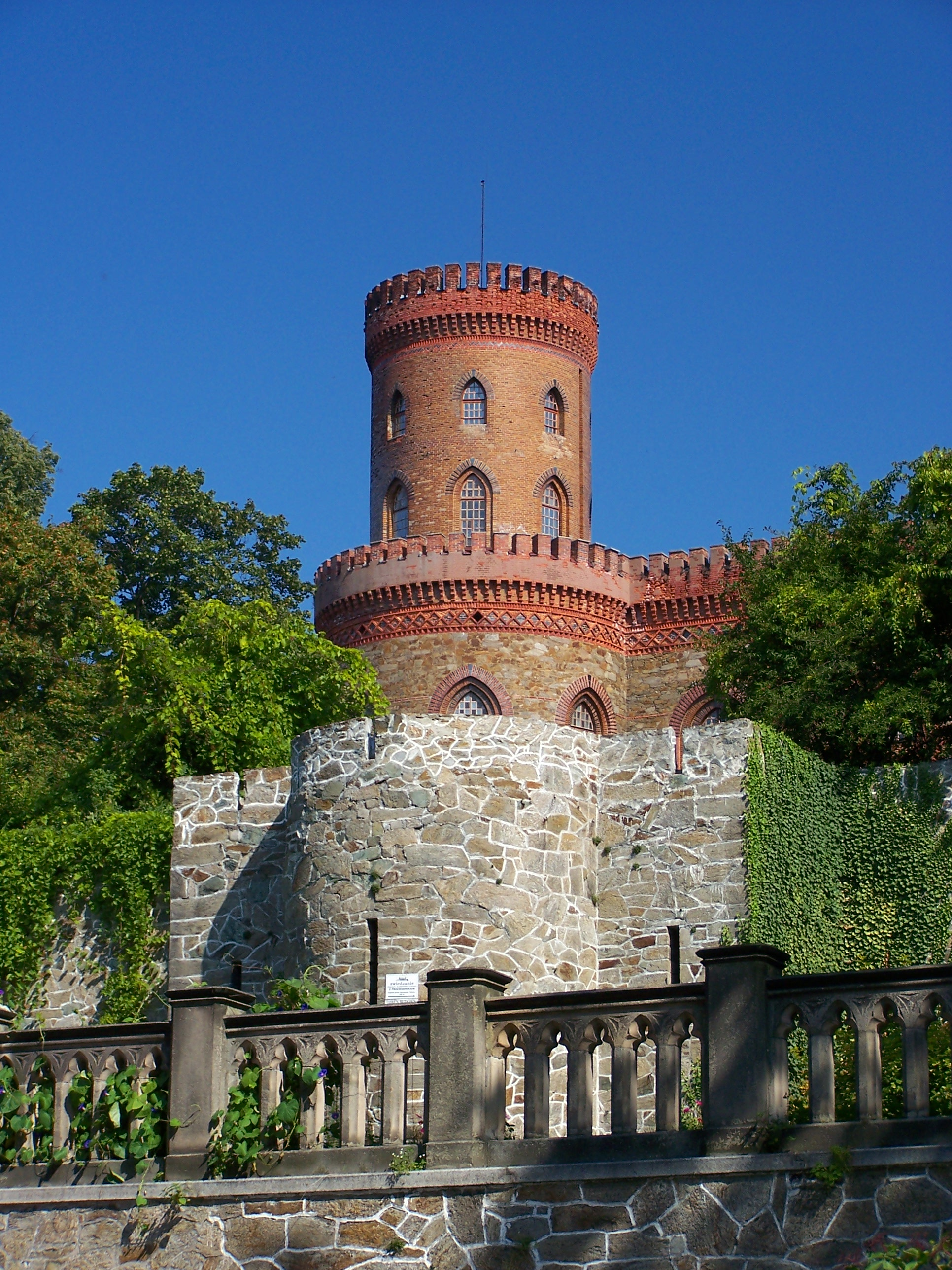 Tower of castle in Kamieniec Ząbkowicki (Poland)